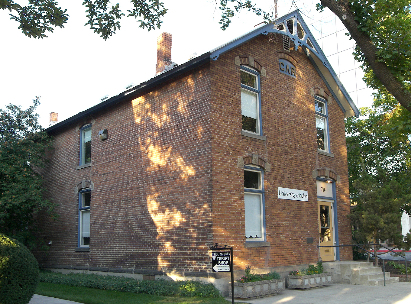 The GAR Hall located at 714 W. State St, Boise, Idaho, United States. The building was listed on the National Register of Historic Places on January 21, 1974.